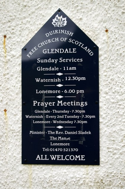 Notice board at Glendale Free Church One of the three Free Churches in Duirinish parish, the most westerly in Skye.